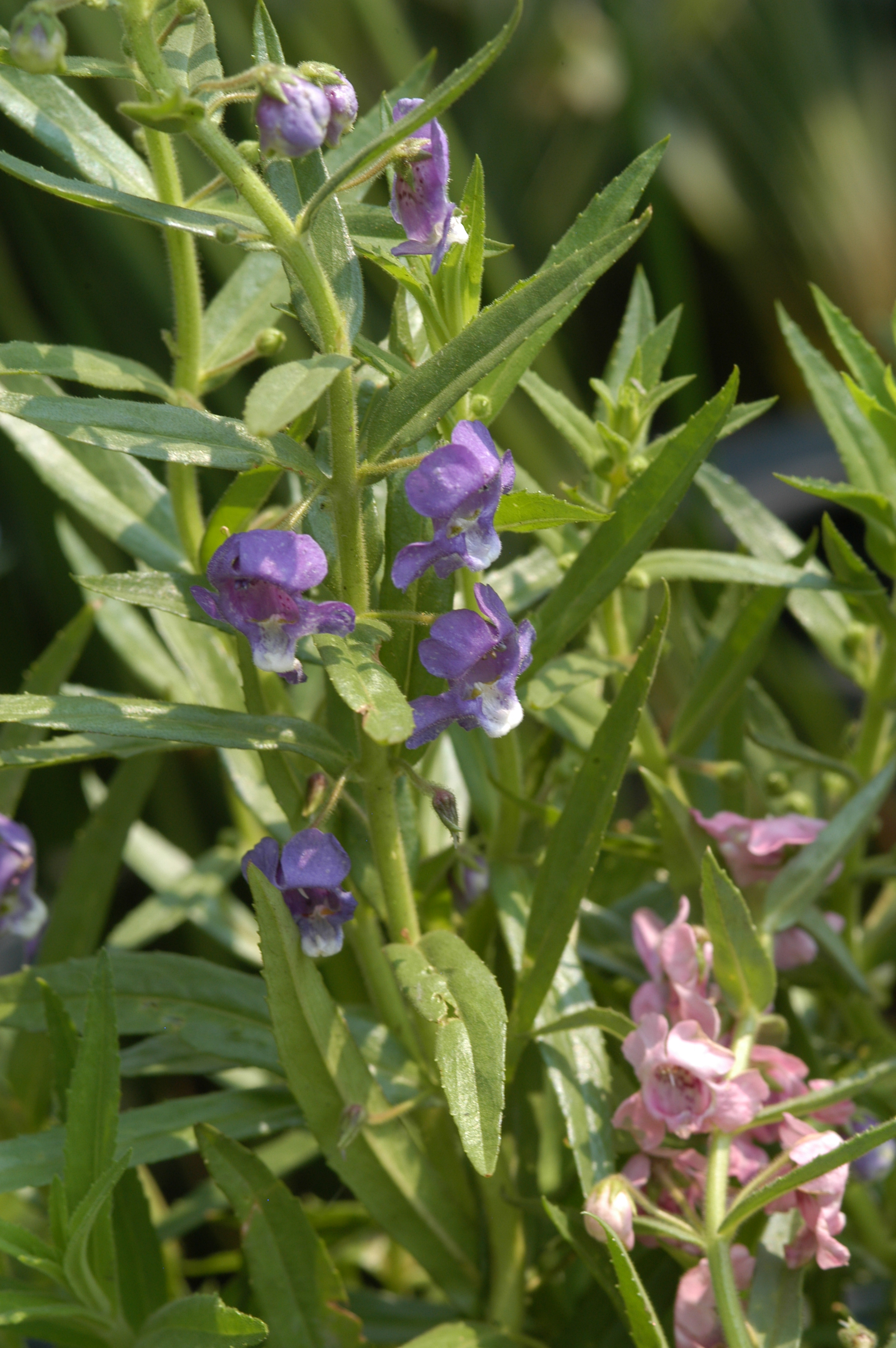 Angelonia biflora